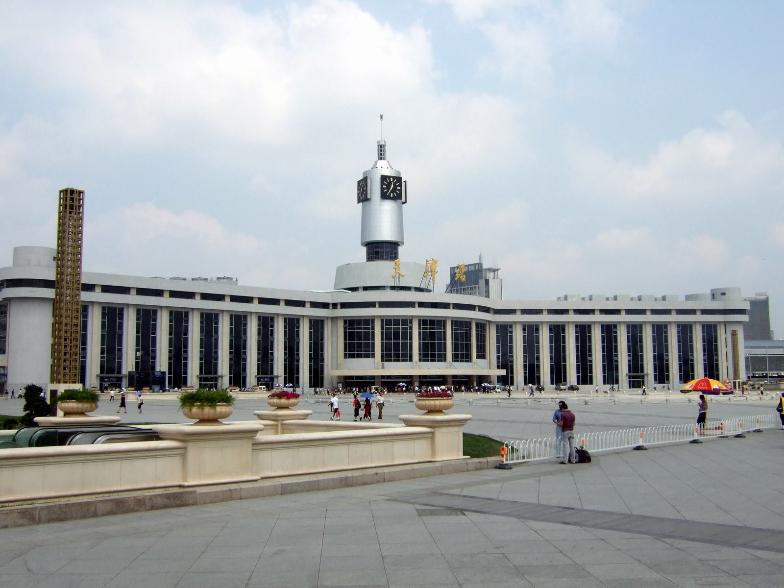 Tianjin Railway Station